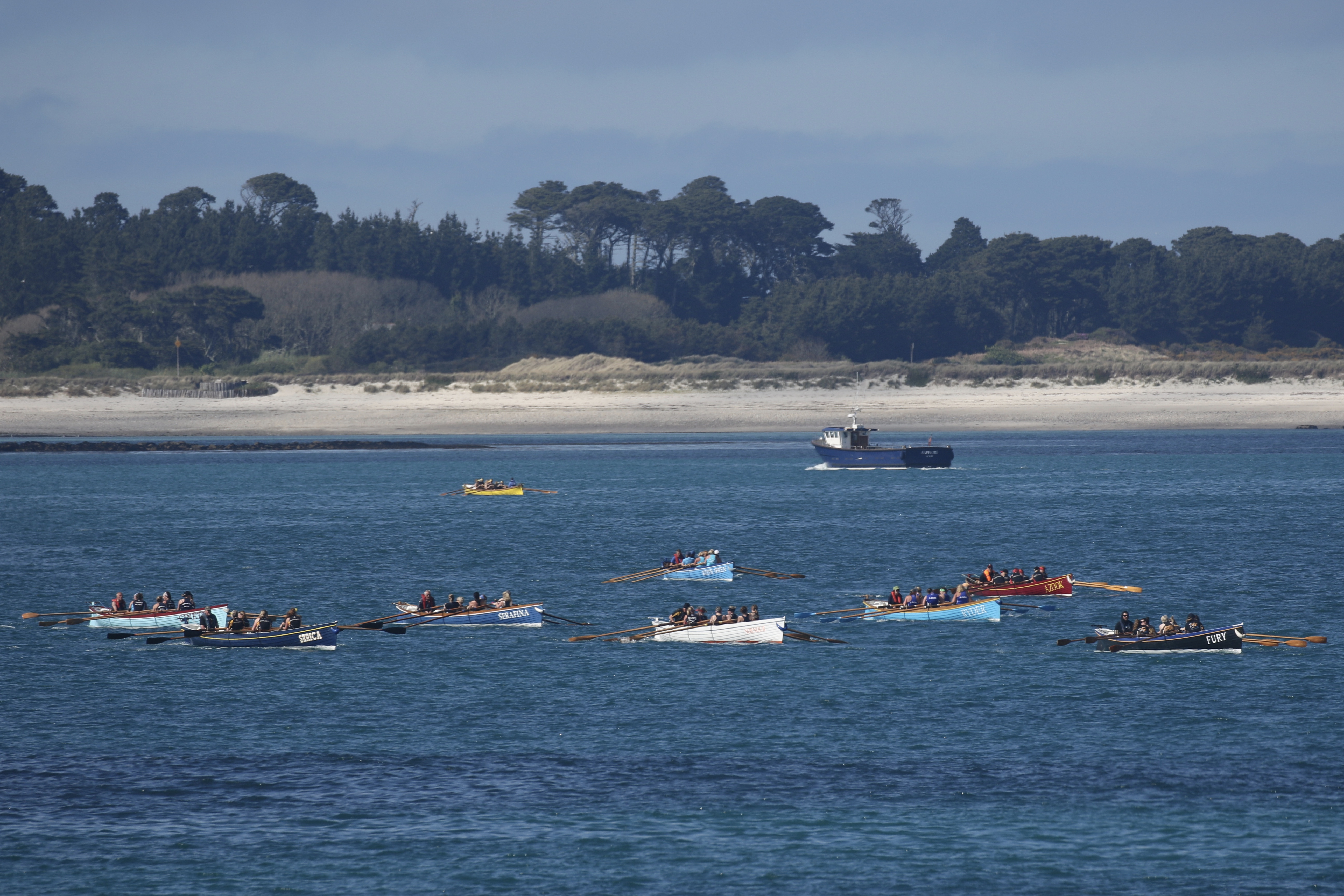 At the World Pilot Gig Championships. Pilot gigs include Fury, Azook, Ryder, Nornour, Keith Owen, Serafina, Serica